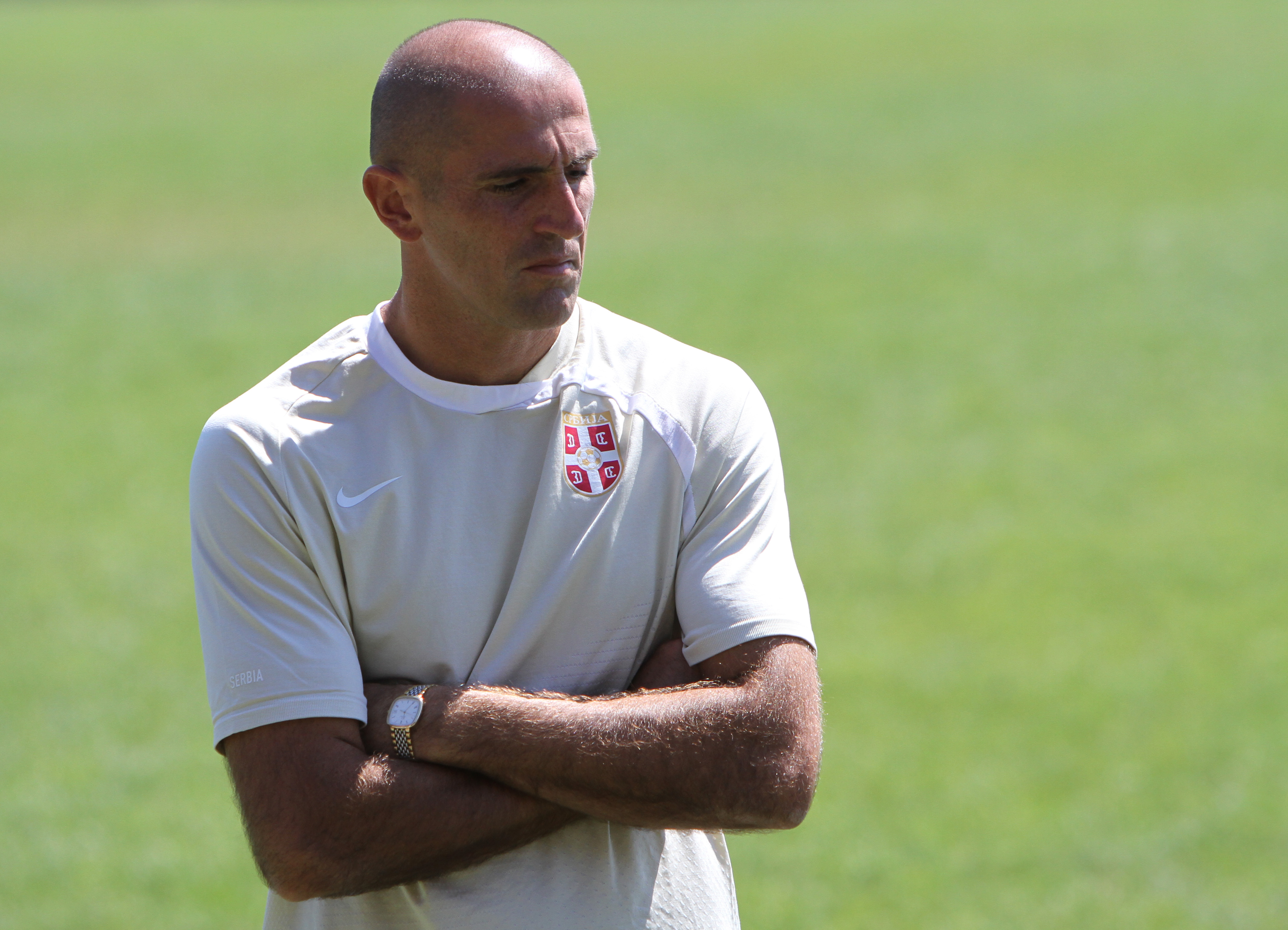 A photo of Aleksandar Sarić, then goalkeeper coach for the Serbian national under-19 football team. Photo taken in Kragujevac.